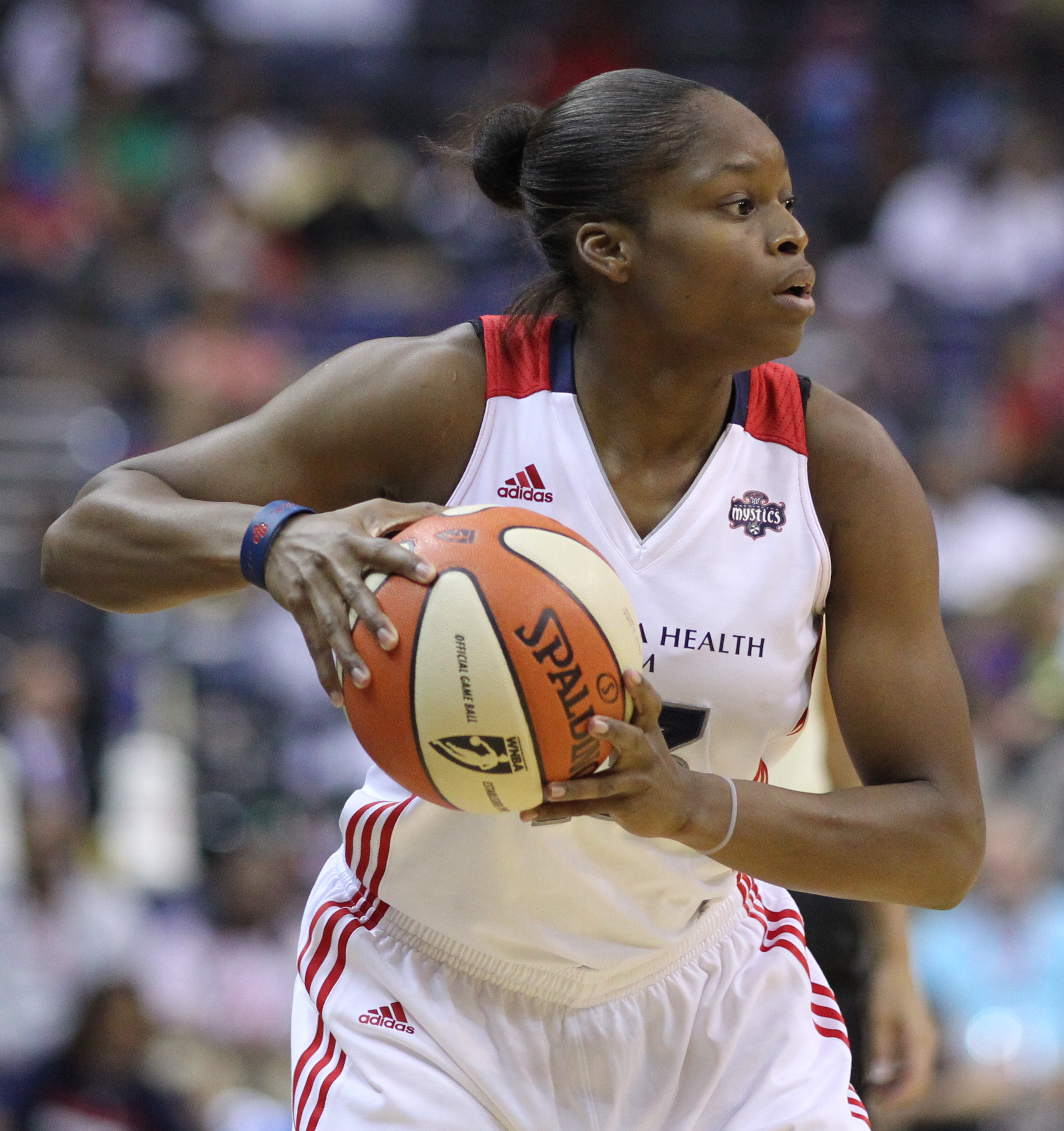 Karima Christmas of the Washington Mystics (at time of photo)